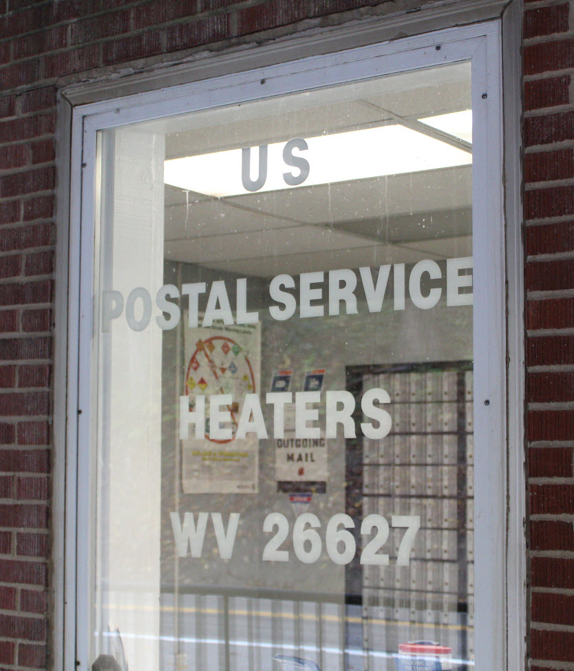 A picture of the window to the US Post Office for Heaters, WV.